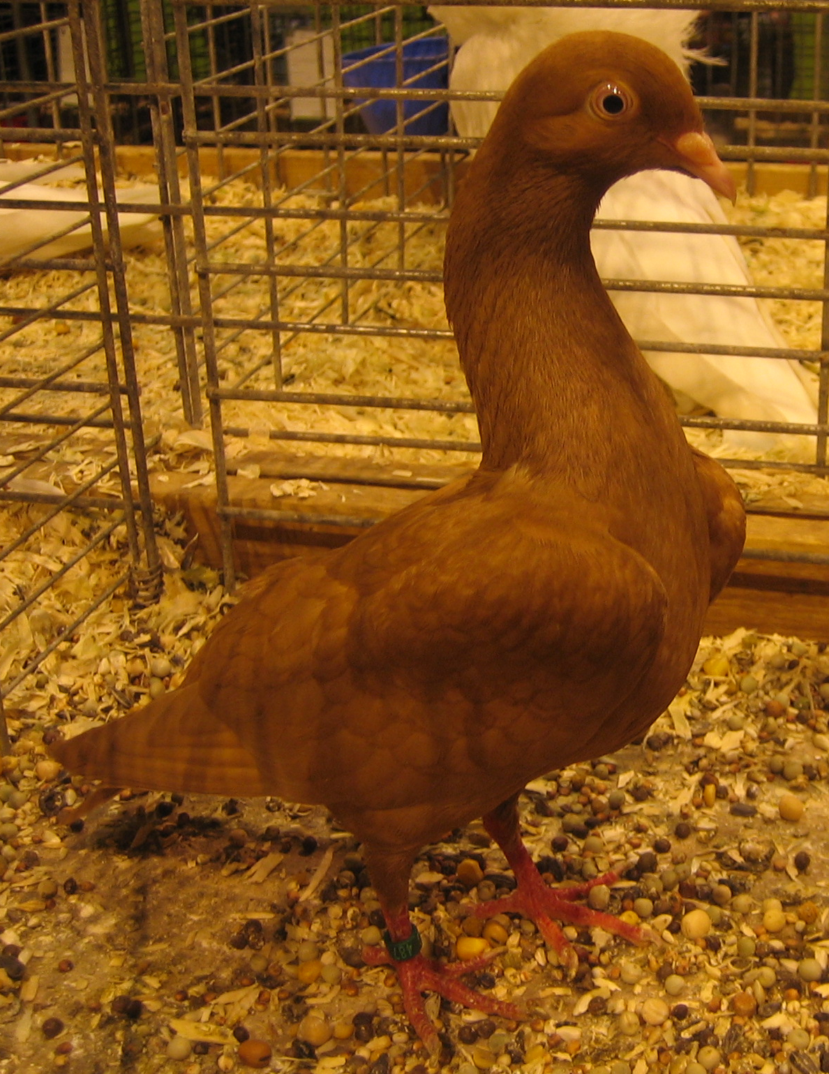 Fancy pigeon (columba livia), Roubaisien breed, at Paris International Agricultural Show.